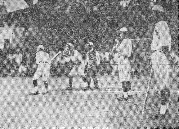 Baseball at the 1922 Korean National Sports Festival.